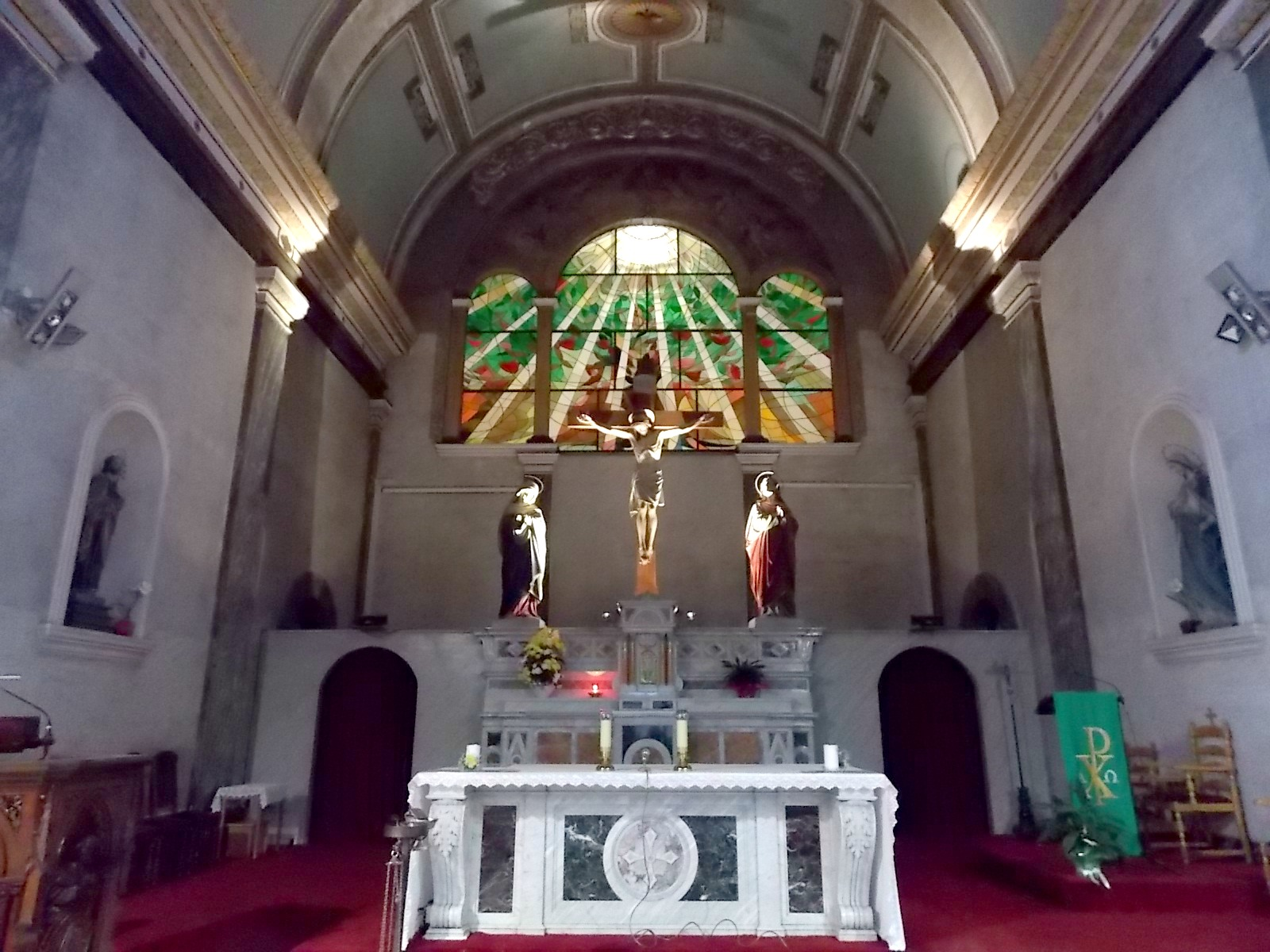 The Catholic Holy Cross Church in Nicosia, Cyprus. The altar. In the center - the figure of Jesus Christ, left - the Virgin Mary, right - Saint Joseph.